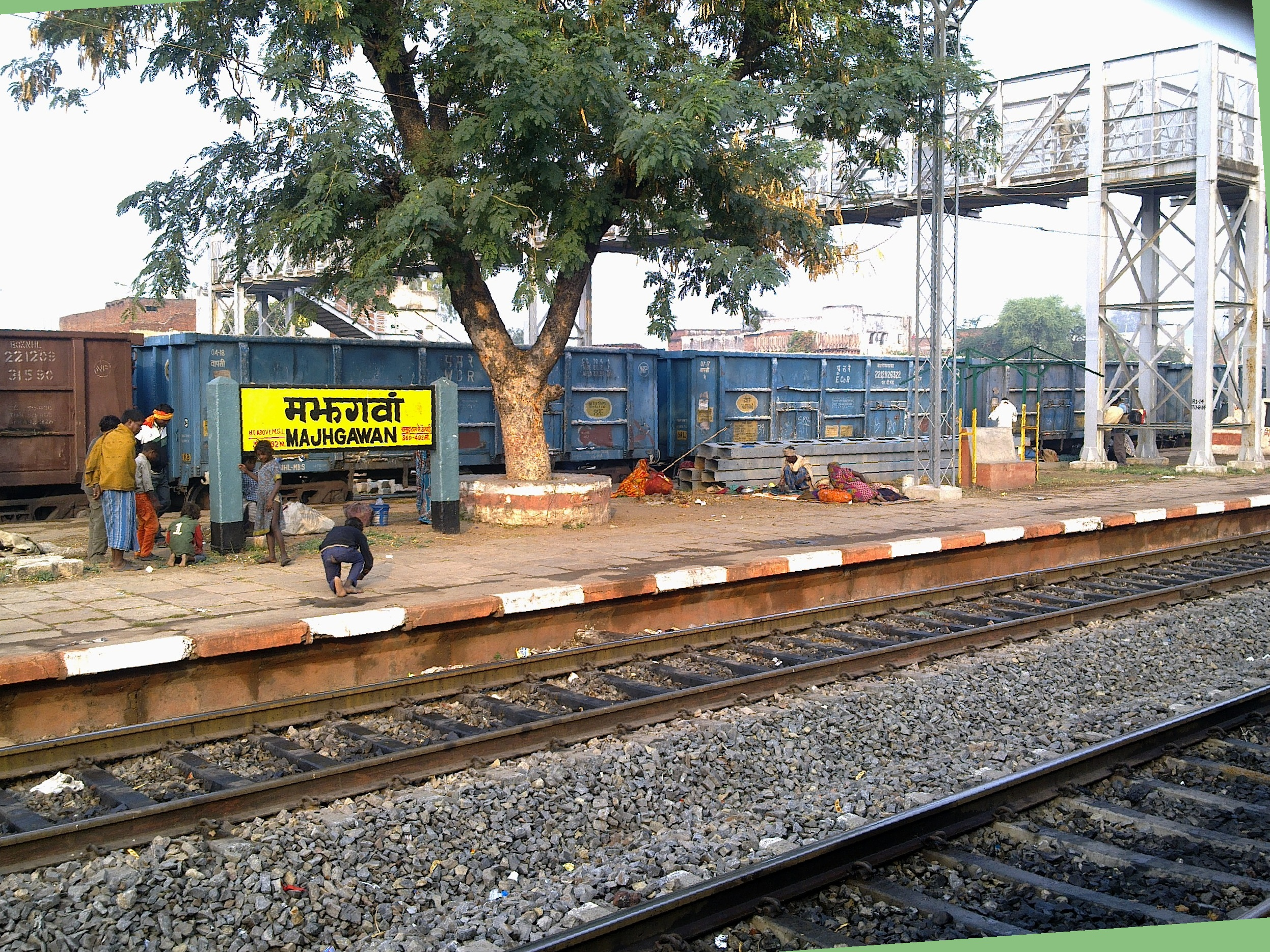 Madhya Pradesh, from train 2015in03kjrh_021